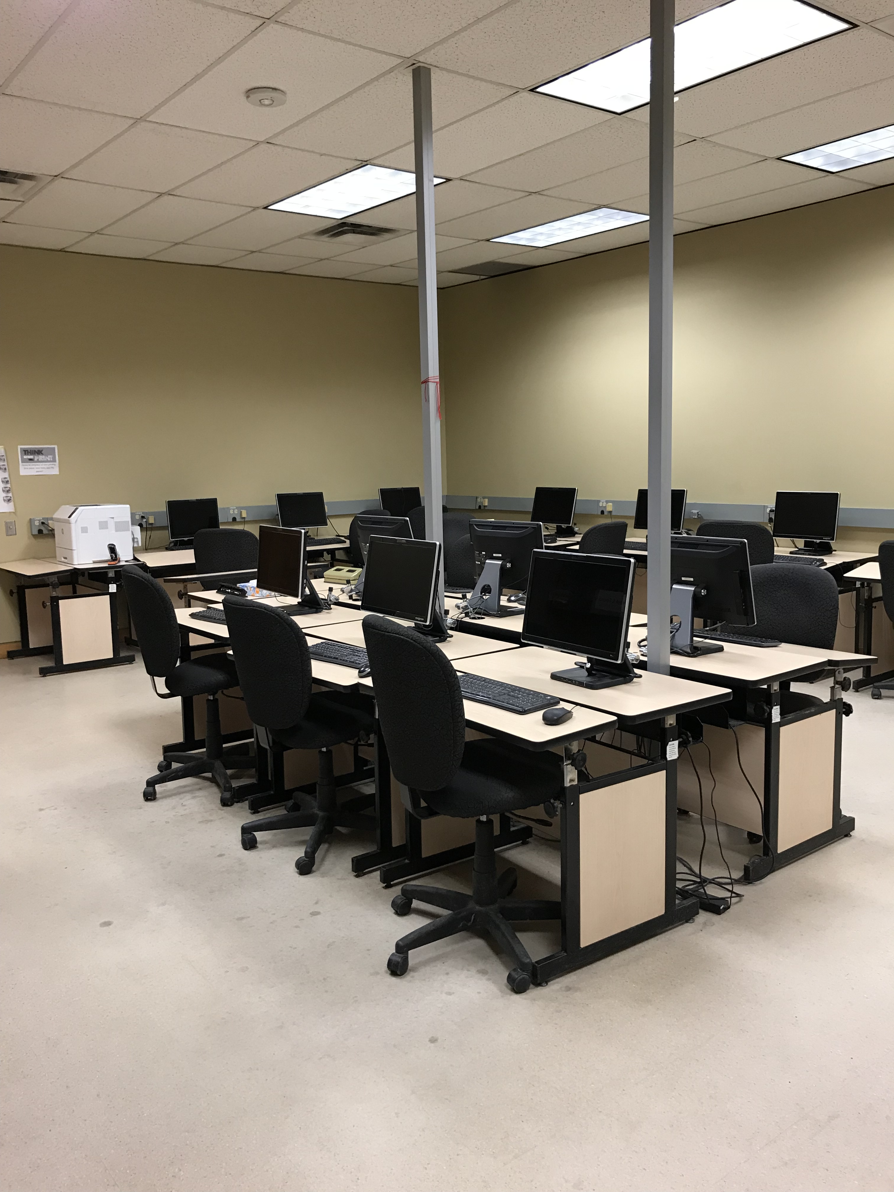 Computer lab of the Arthur Kroeger College of Public Affairs, Loeb Building at Carleton University in Ottawa, Ontario, Canada